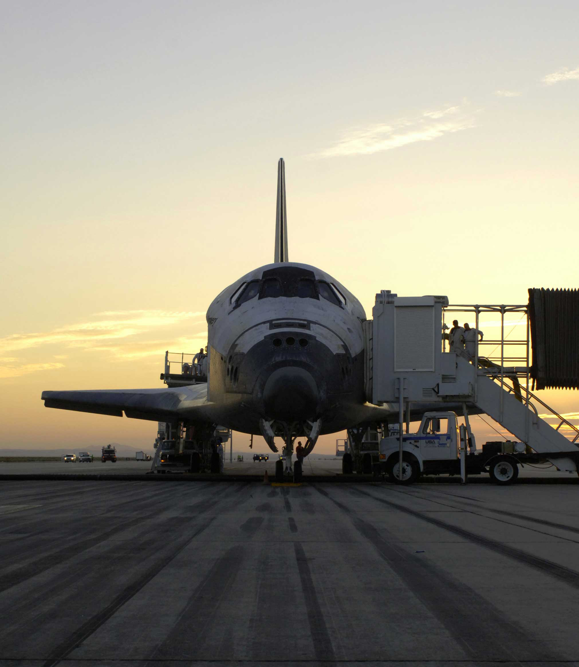 The sun rises on the Space Shuttle Discovery as it rests on the runway at Edwards Air Force Base, California, after a safe landing August 9, 2005 to complete the STS-114 mission.